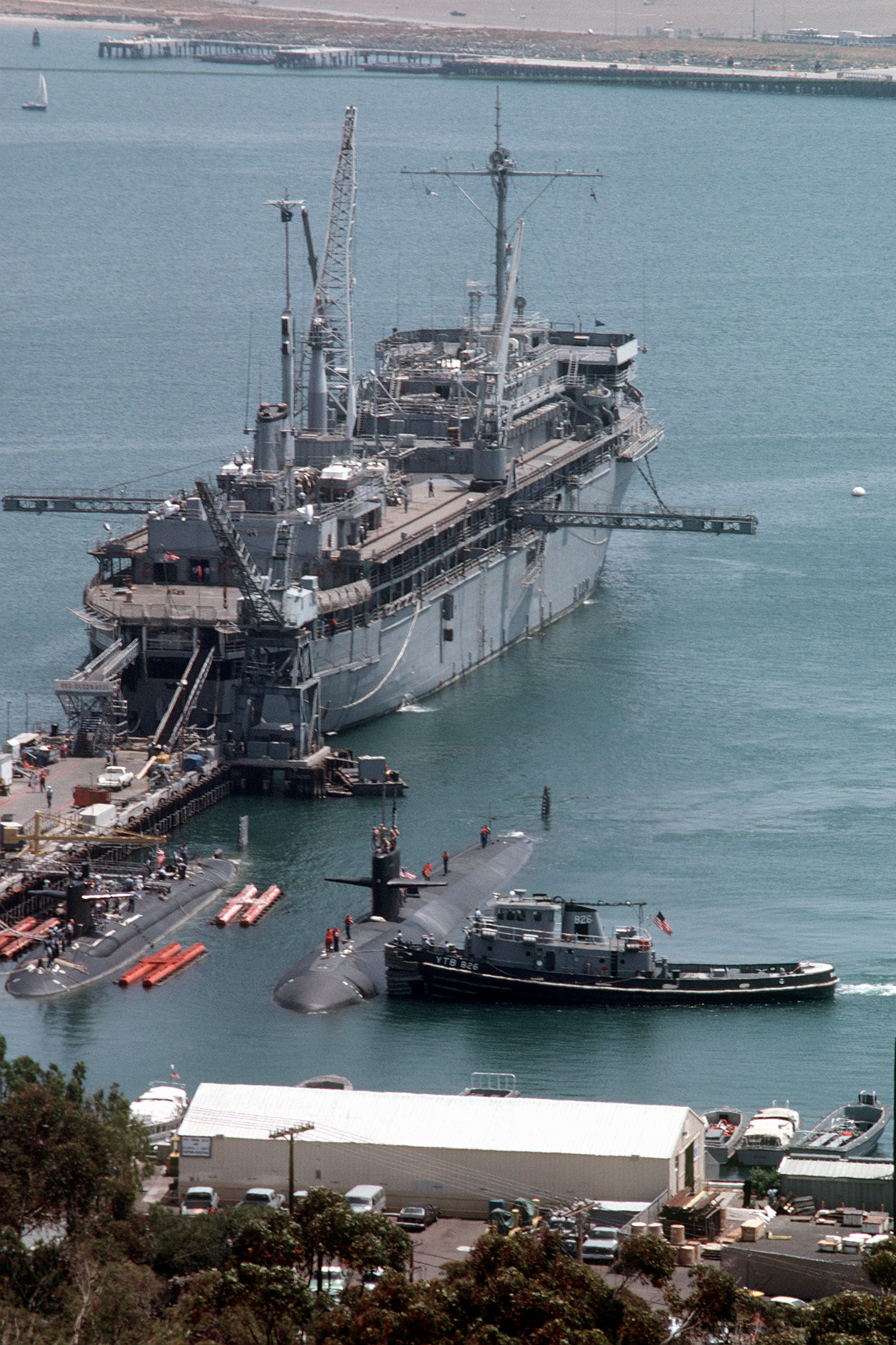 United States Navy large harbor tug USS Washtucna (YTB-826) (lower right) assisting submarine USS La Jolla (SSN-701) into her berth outboard of submarine USS Plunger (SSN-595) at Submarine Base San Diego, California, on 1 July 1982. In the background is submarine tender USS Dixon (AS-37).